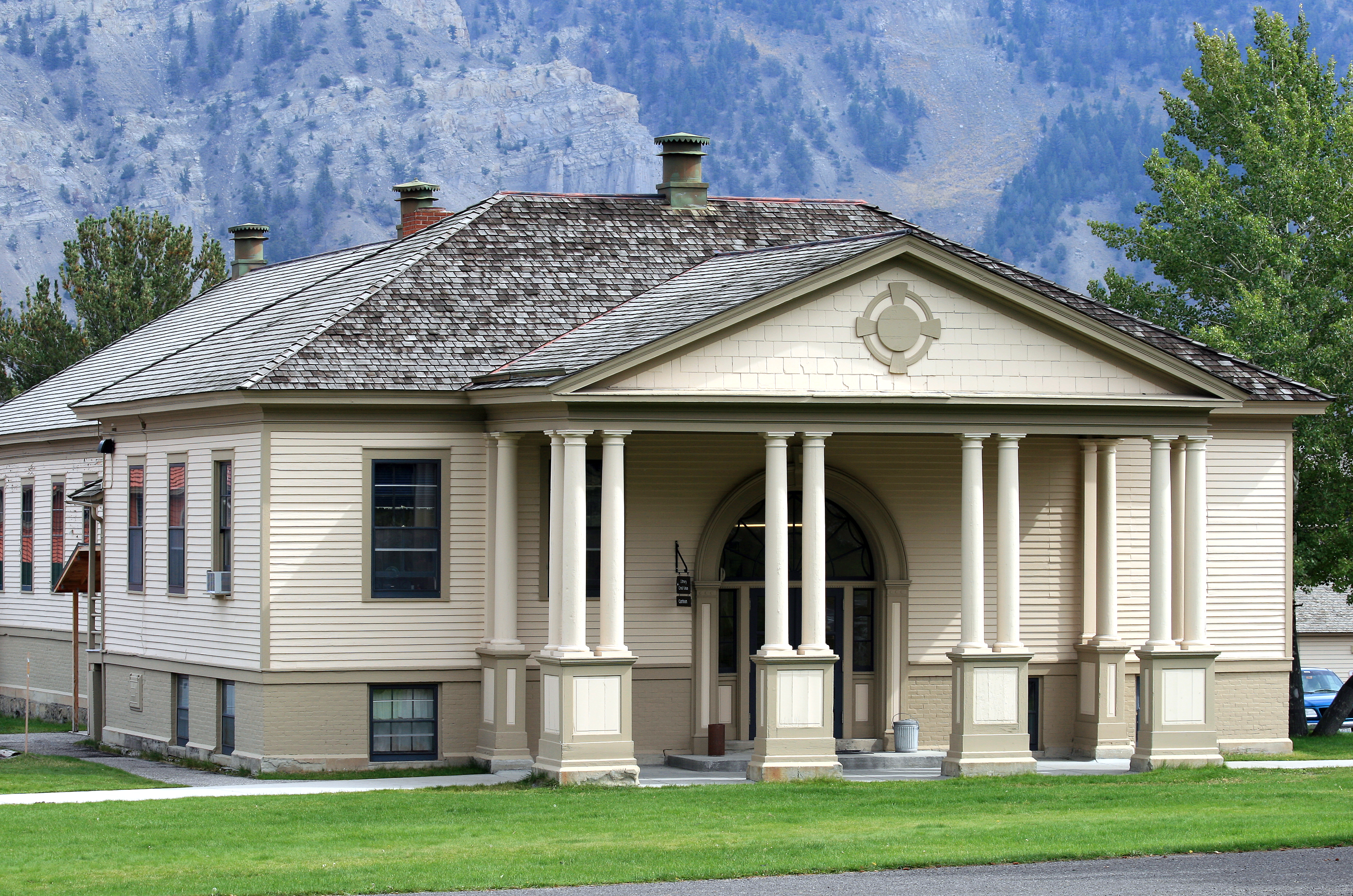 The canteen at Fort Yellowstone, Yellowstone National Park, Wyoming, USA